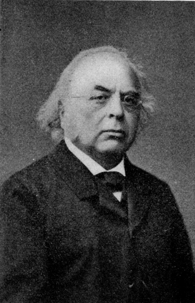 Moriz Haupt (1808—1874), German philologist